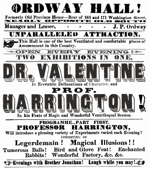 Advertisement for Dr. Valentine and Professor Harrington, Ordway Hall, Boston